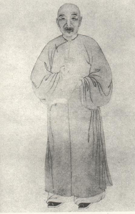 Gu Zhenguan, scholar of the Qing Dynasty.